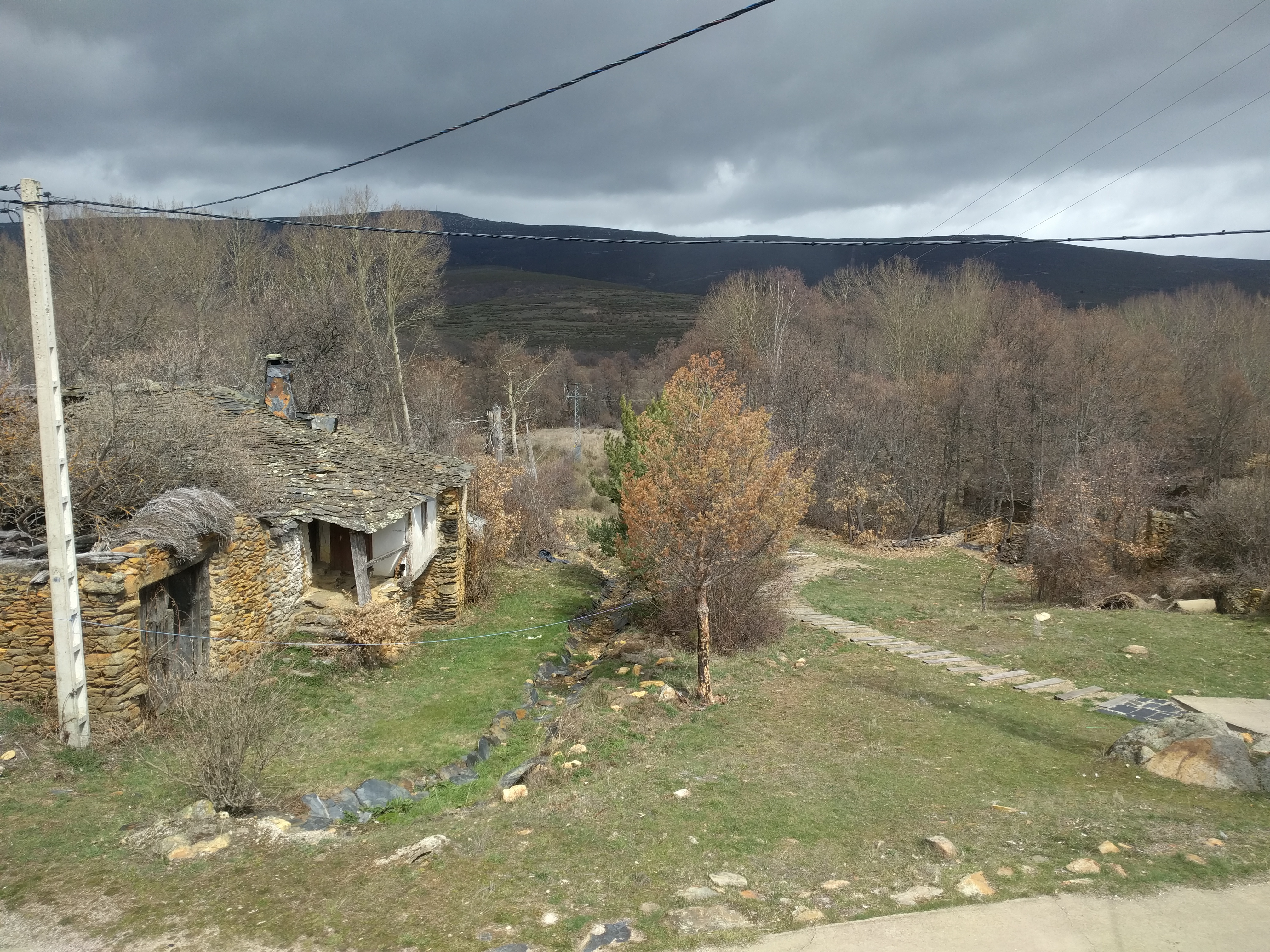 Arquitectura tradicional en Valdavido